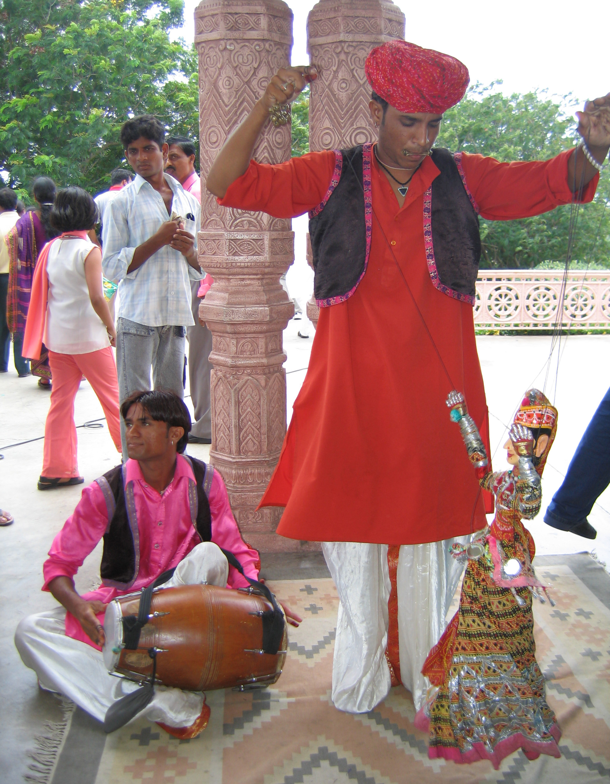 Ramoji Film City, Hyderabad - views from Ramoji Film City